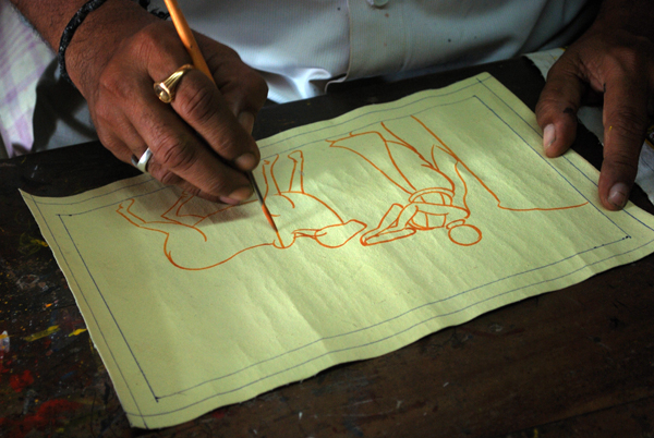 Cherial Scroll Painting in progress